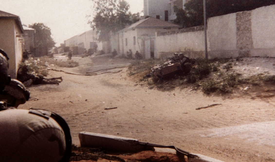 Members of Task Force Ranger under fire in Somalia. October 3, 1993 Operation Code Irene — the Battle of Mogadishu. U.S. Army Rangers Photo Contents 1 Copyright status 2 Source of image 3 Licensing 4 Original upload log Copyright status Public domain: United States Army Rangers. Source of image Taken on January 13, 2004 from [1] - Black Hawk Down: A Soldier's View